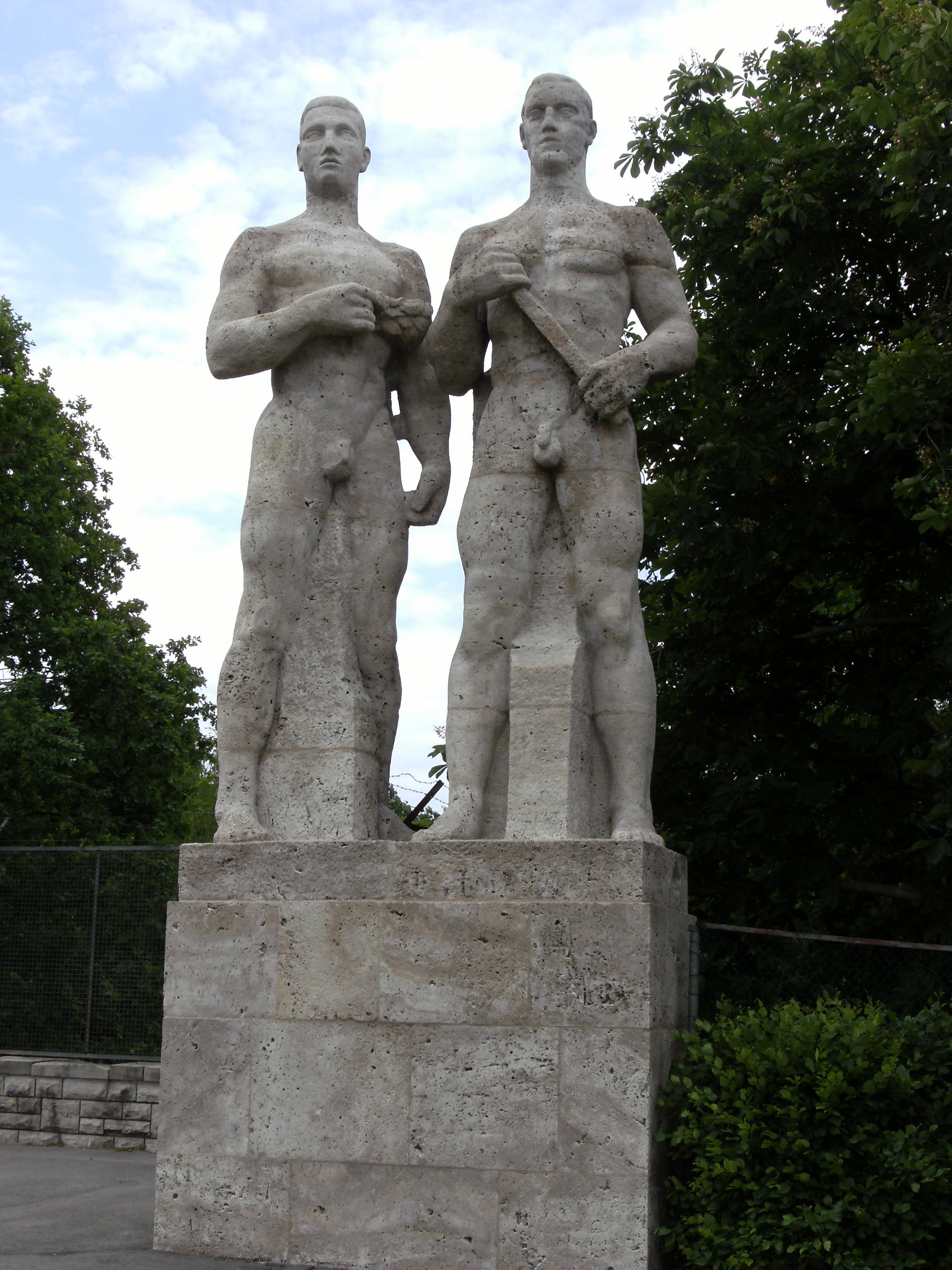 Berlin in june 2008.